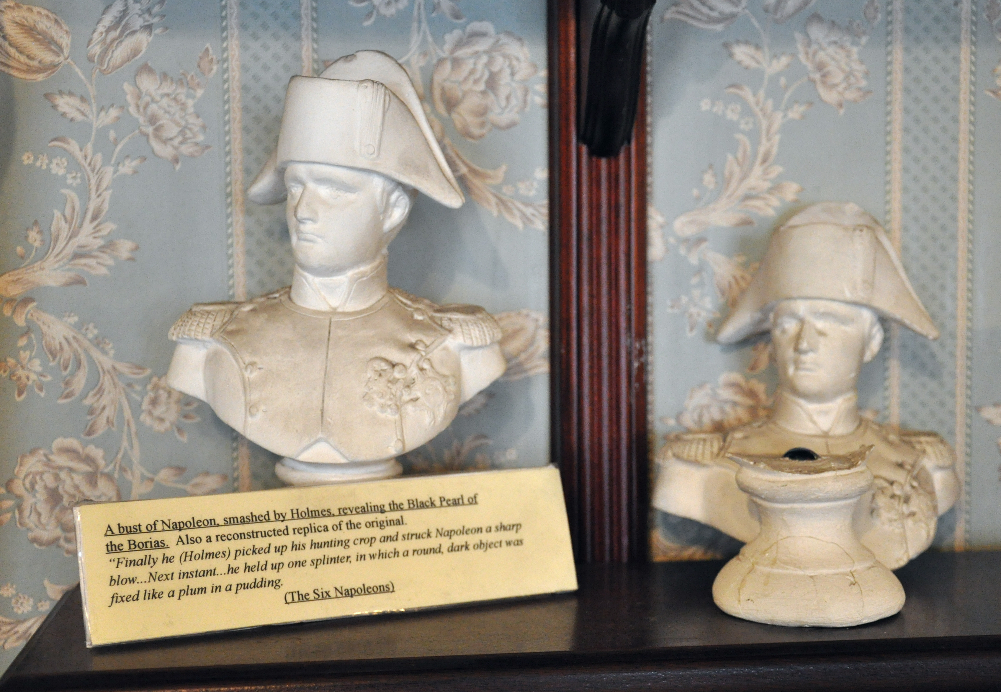 Sherlock Holmes Museum, Baker Street, London Napoleon busts illustrating "The Adventure of the Six Napoleons"